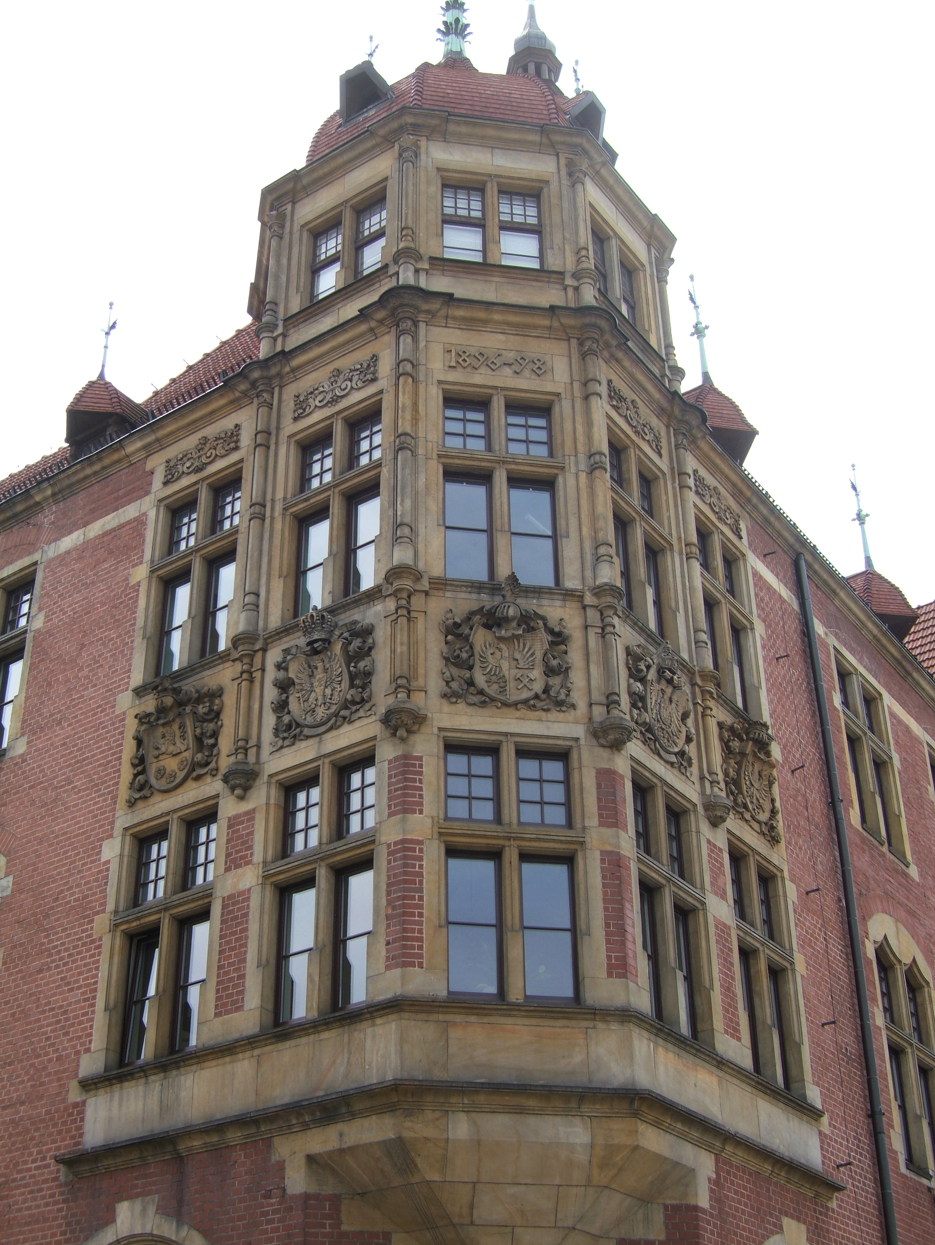 The bay of the city hall in Tarnowskie Góry (1896-1898). There are coat of arms of the Donnersmarck family, Prussia, Tarnowskie Góry, the German Empire (since 1871) and Silesia (from the left hand side)